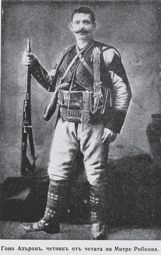 Portrait of bulgarian IMARO revolutionary Gono (Georgi) Azarov from Gumendzhe, Goumenissa